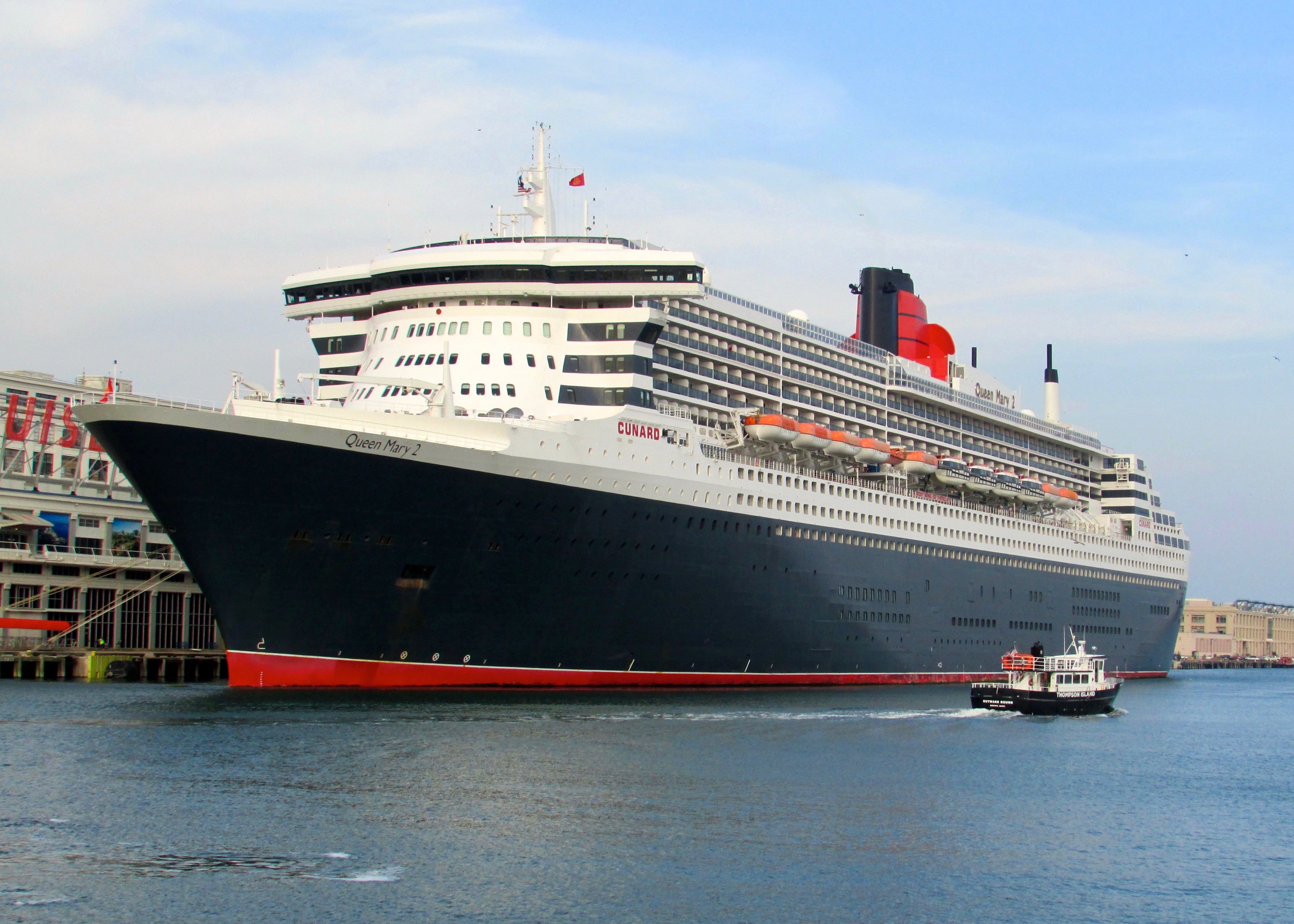 Queen Mary 2 in port of Boston